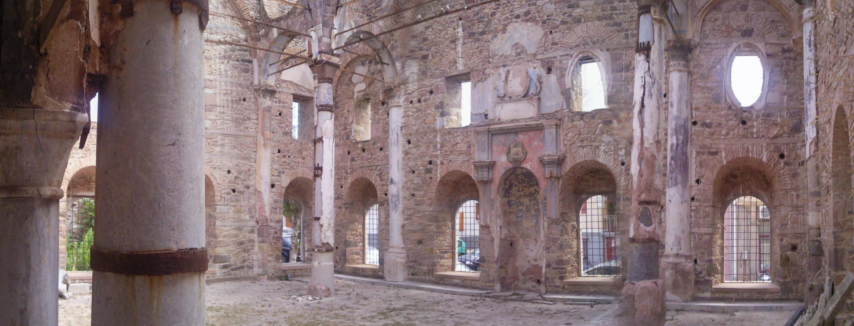 Interior of the Geni Tzami Moske in Mytilini, Lesbos, Greece